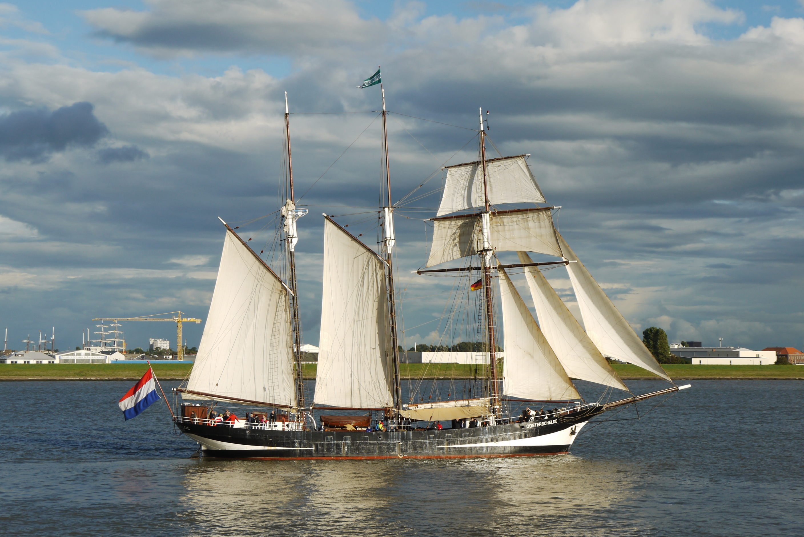 The "Oosterschelde" on the Außenweser 2010 (Sail Bremerhaven)